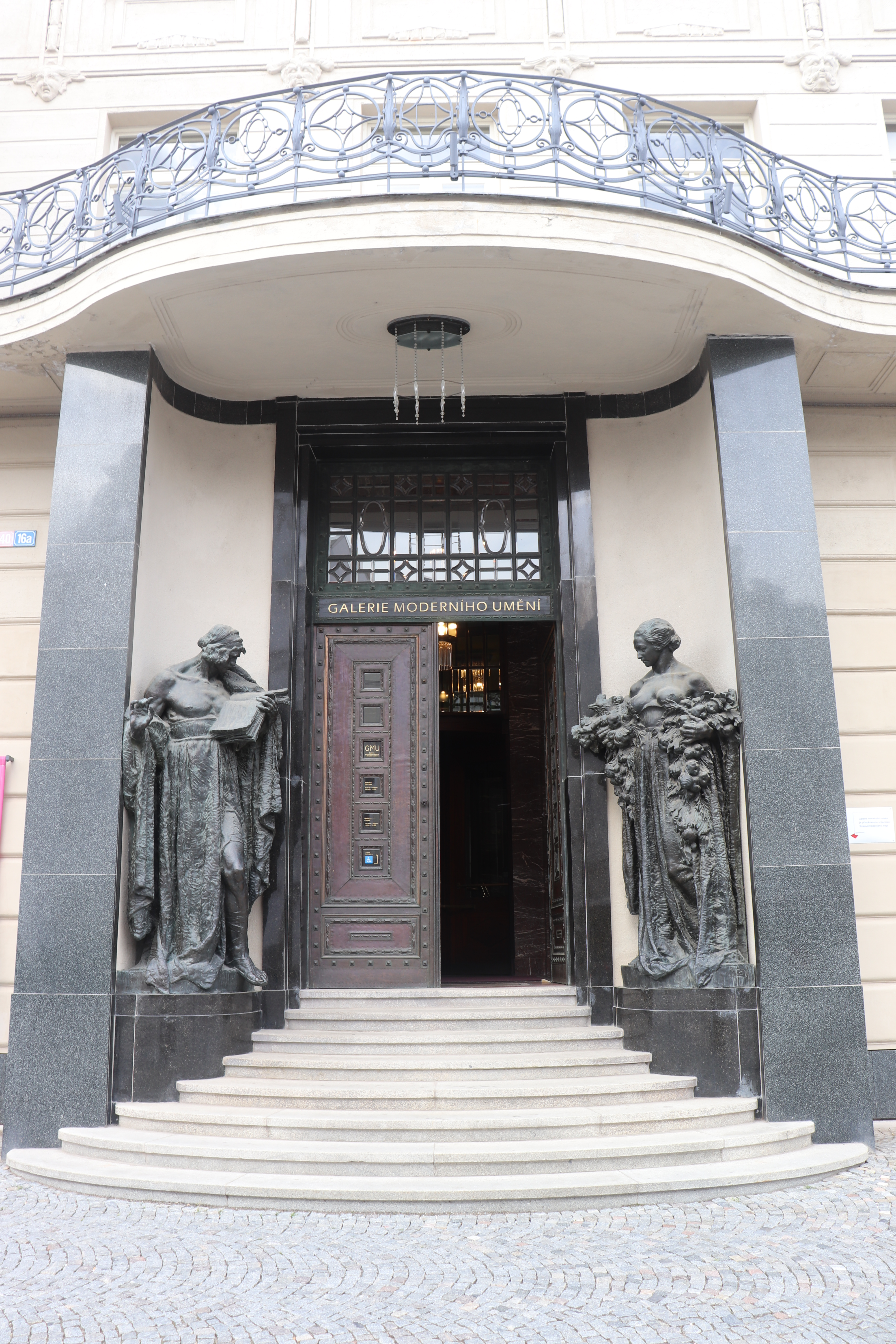 Hradec Králové - Gallery of Modern Art